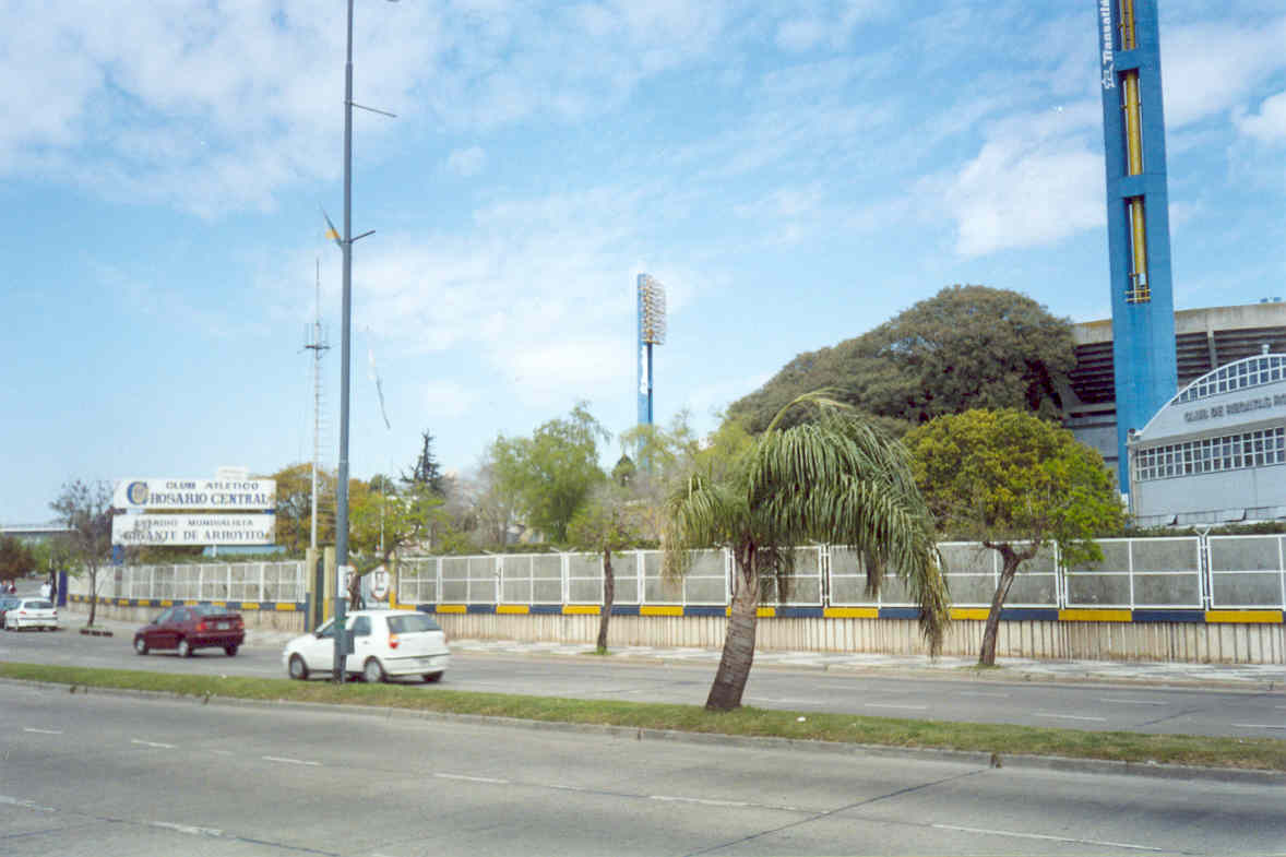 The stadium of the Rosario Central football team, in north-east Rosario, Argentina. I, Pablo D. Flores, took this picture myself in September 2005.